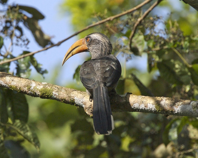 Malabar Grey-Hornbill (Ocyceros griseus) at Thattekad, Kerala, India. In tree with back to camera.